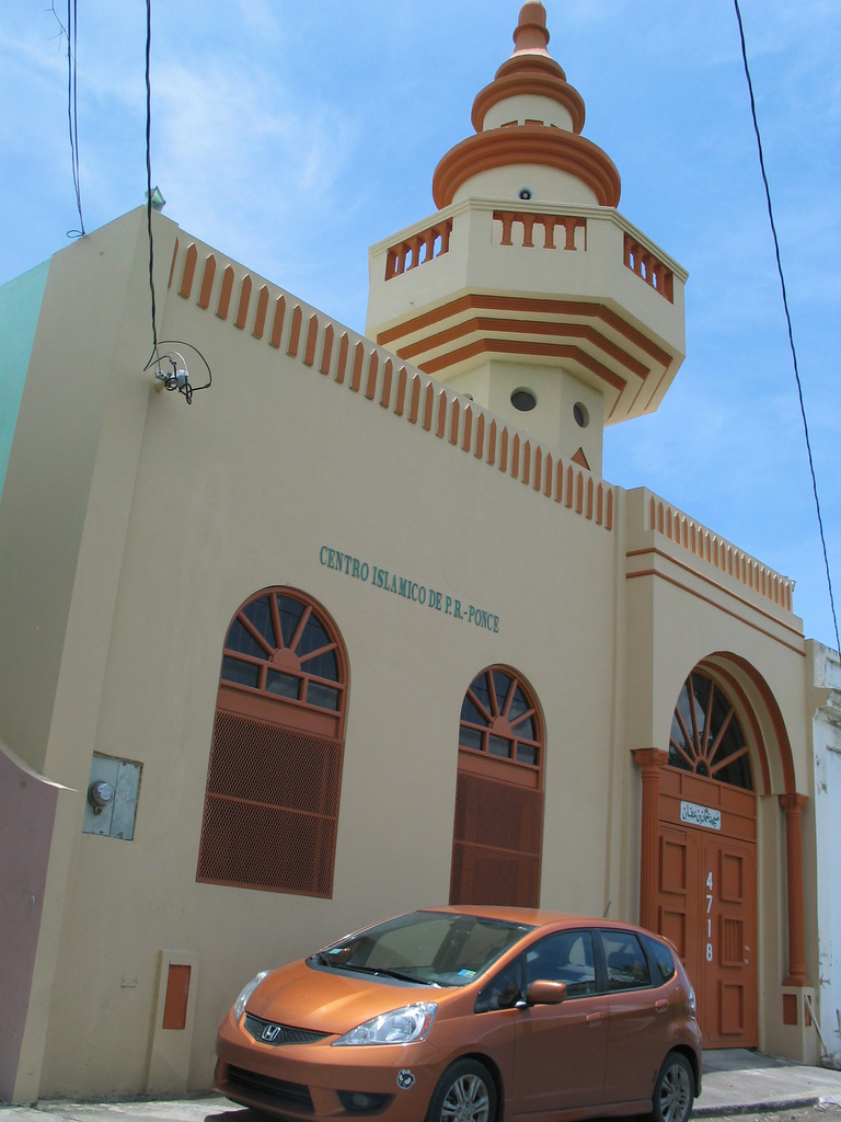 Puerto Rico Islamic Center at Ponce in Barrio Cuarto, Ponce, Puerto Rico